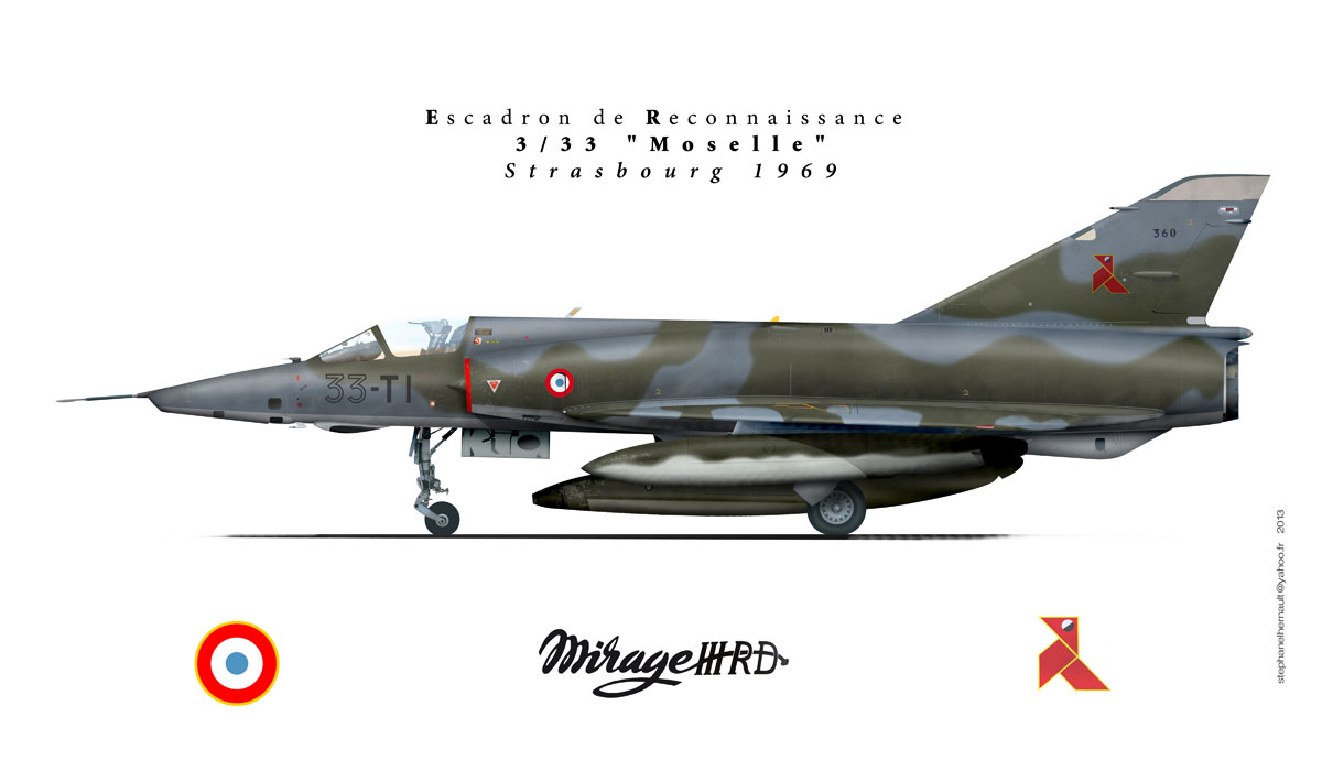 Mirage III RD escadron 3/33 Moselle strasbourg 1969